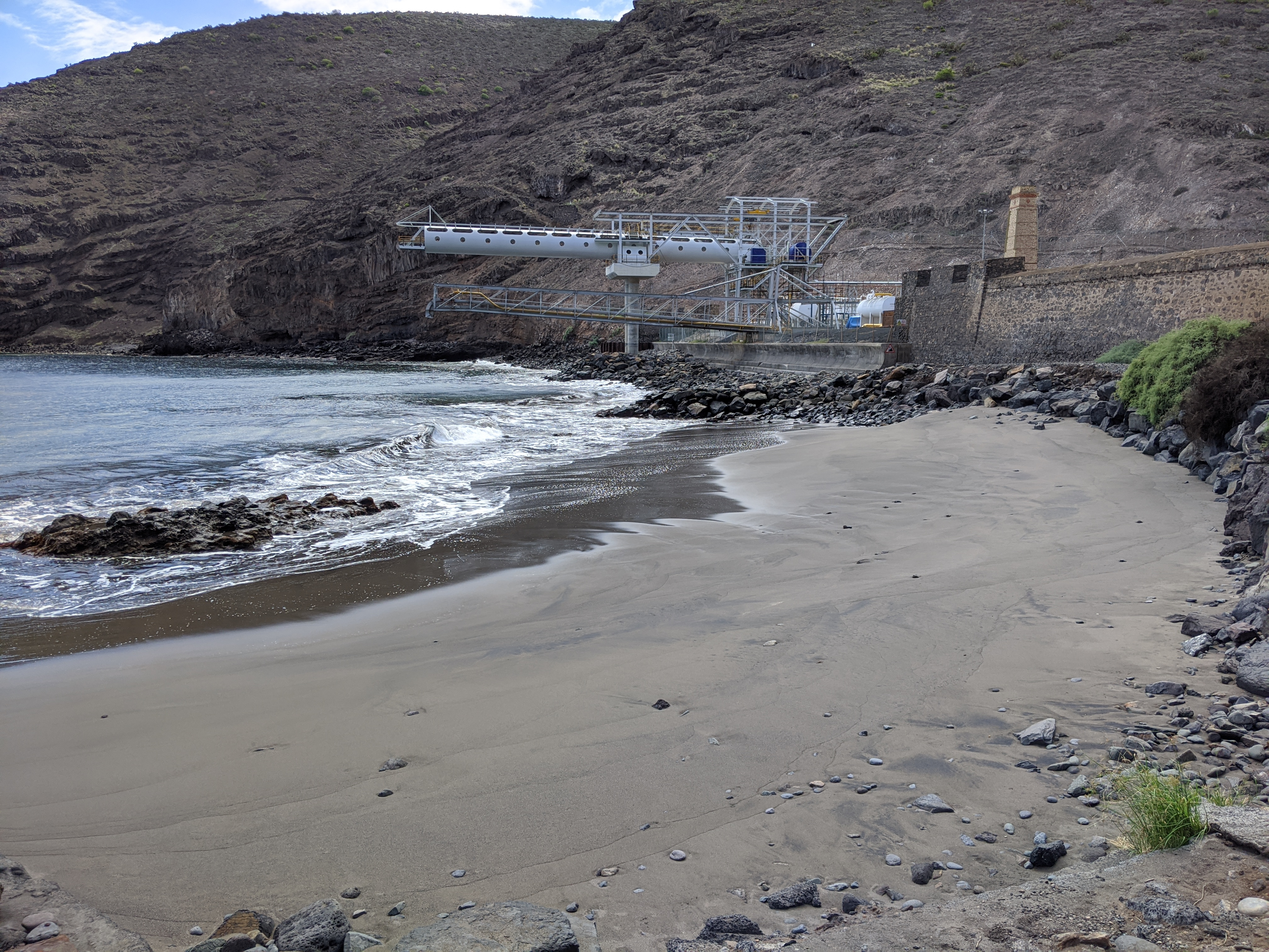 a small brown sand beach in the foreground with the fuel offloading apparatus in the distance